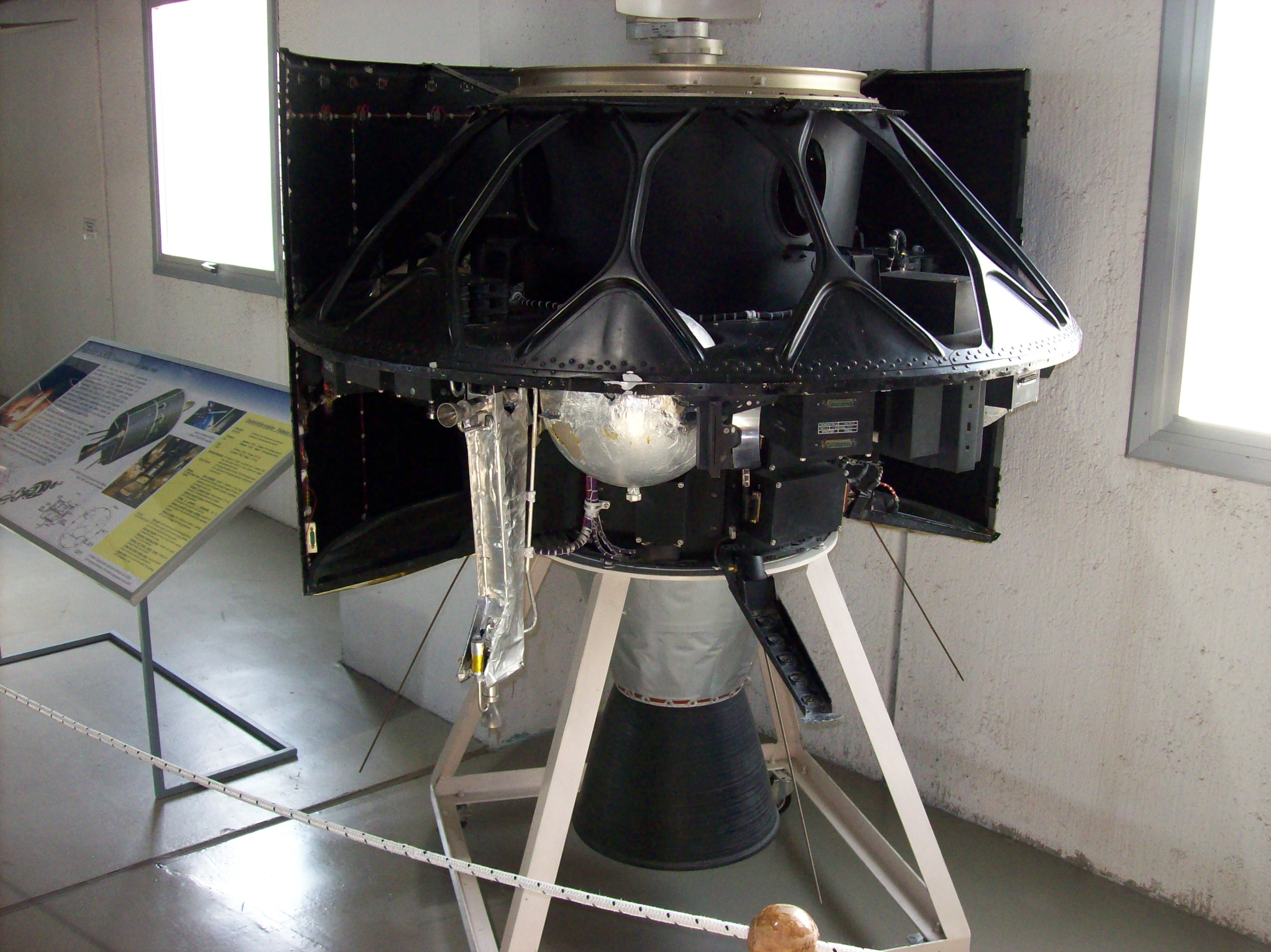 Cutout of the Italian research Satellite SIRIO-1, first launched in 1977 by National Research Council, then operated by the Italian Space Agency